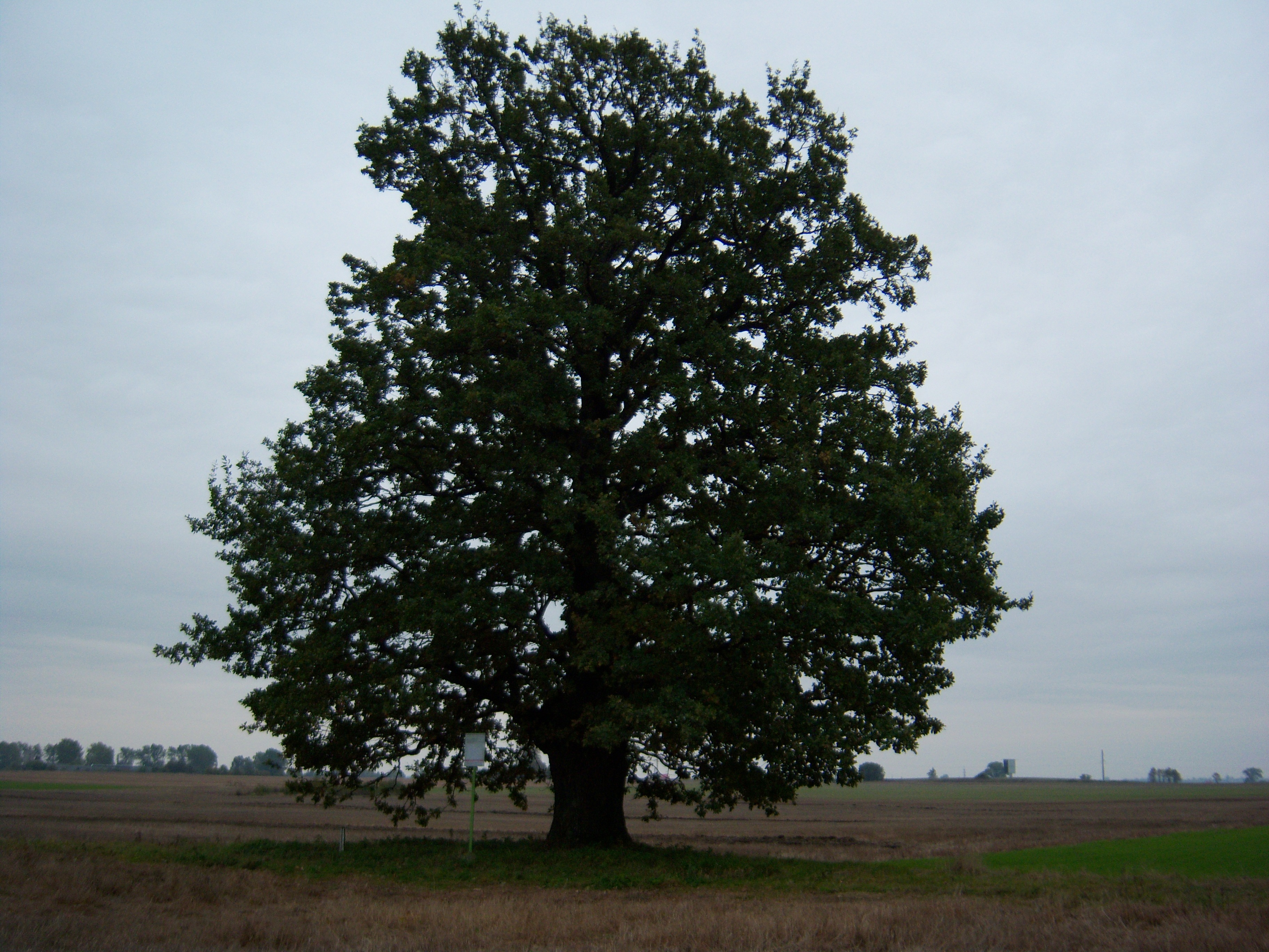 Oak near Uogintai, Kaišiadorys District, Lithuania